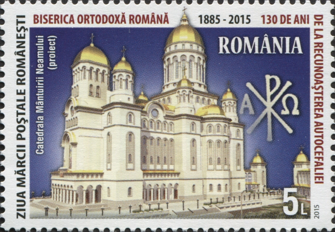 Stamps of Romania, 2015